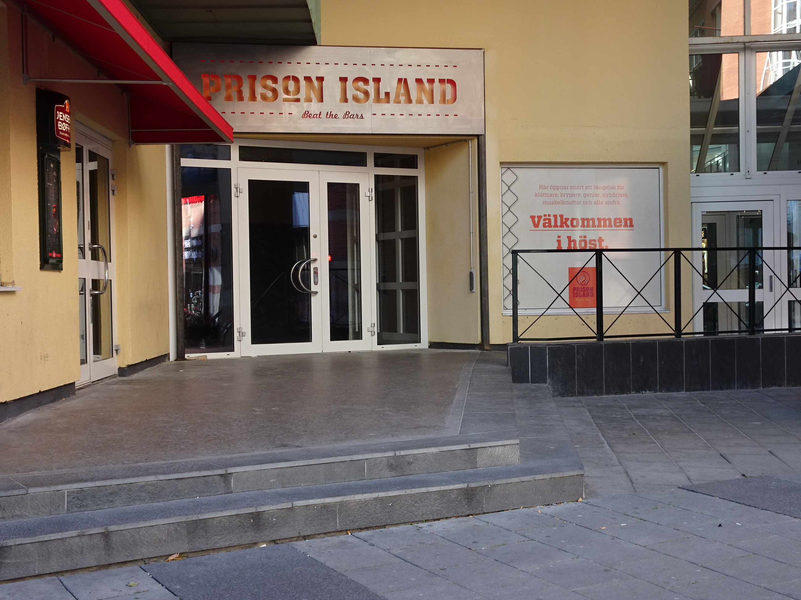 Prison Island Västerås is an indoor competition activity, roughly like the activities on Fort Boyard (TV series). It was created in Västerås, named Arosfortet, later exported to Norway, Finland, the Netherlands, Spain and Germany. This is the second location opened in October 2016 in Västerås city centre, Sweden.